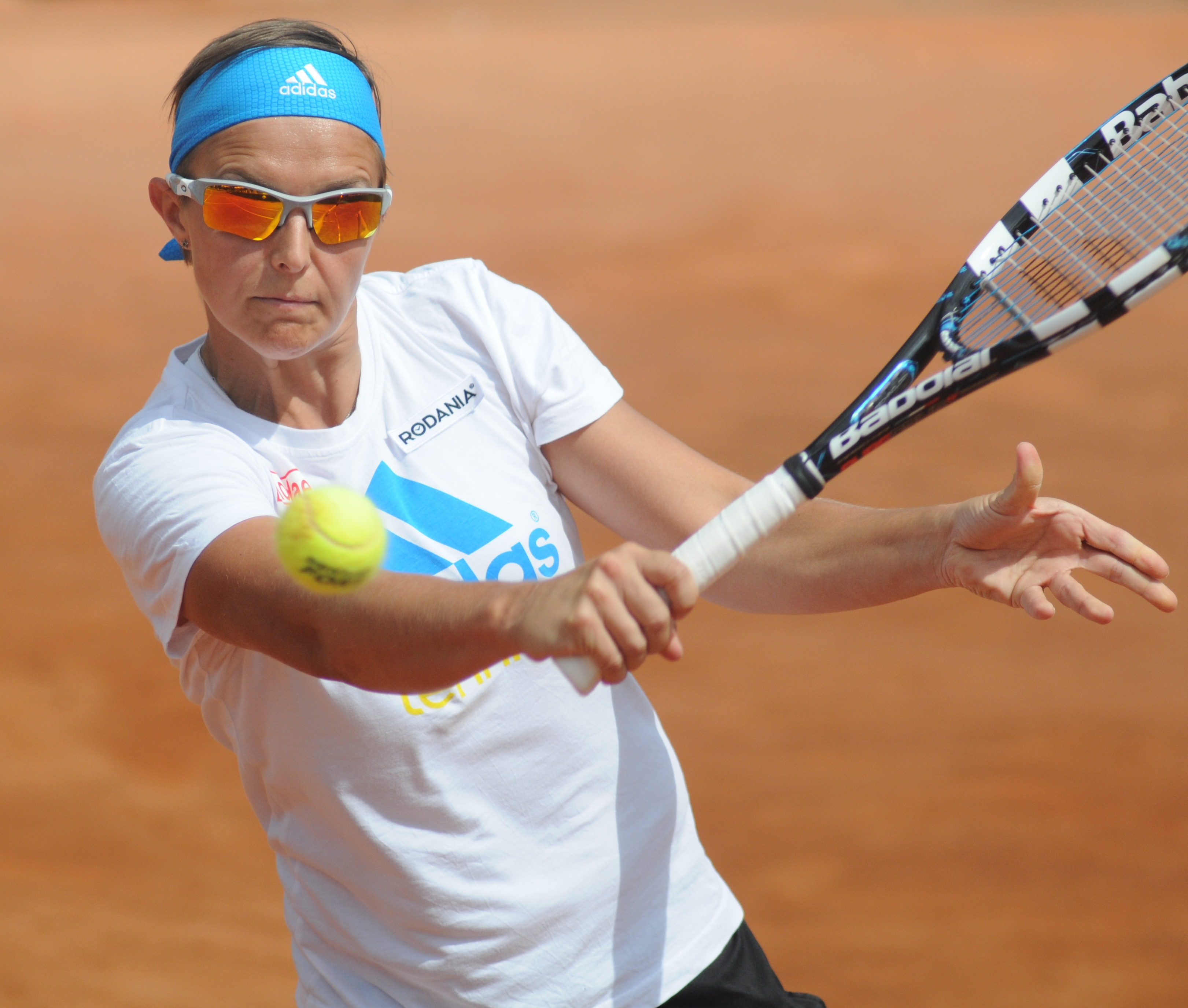 Kirsten Flipkens at the 2014 Internazionali BNL d'Italia